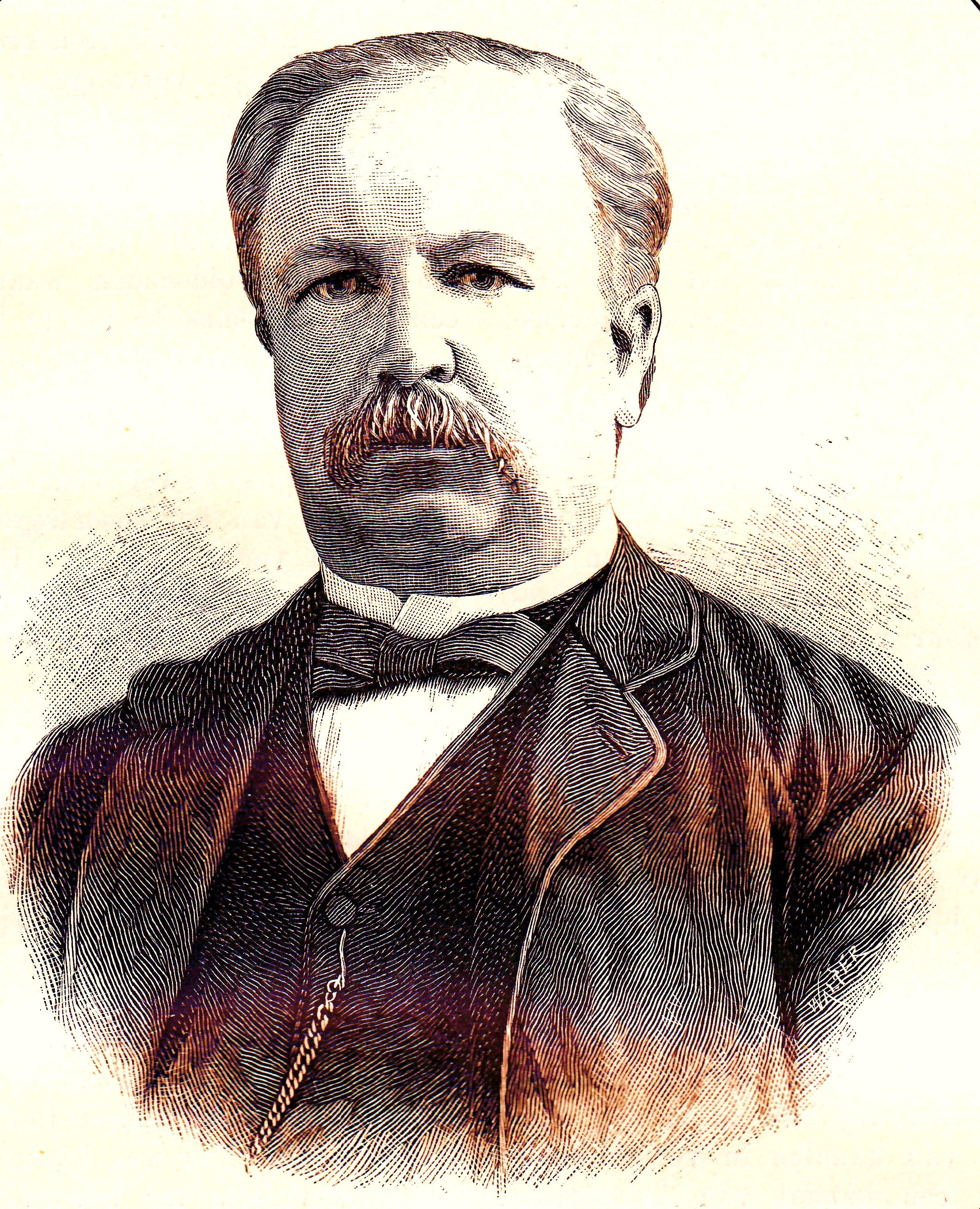 Mr. J.P.R. Tak van Poortvliet